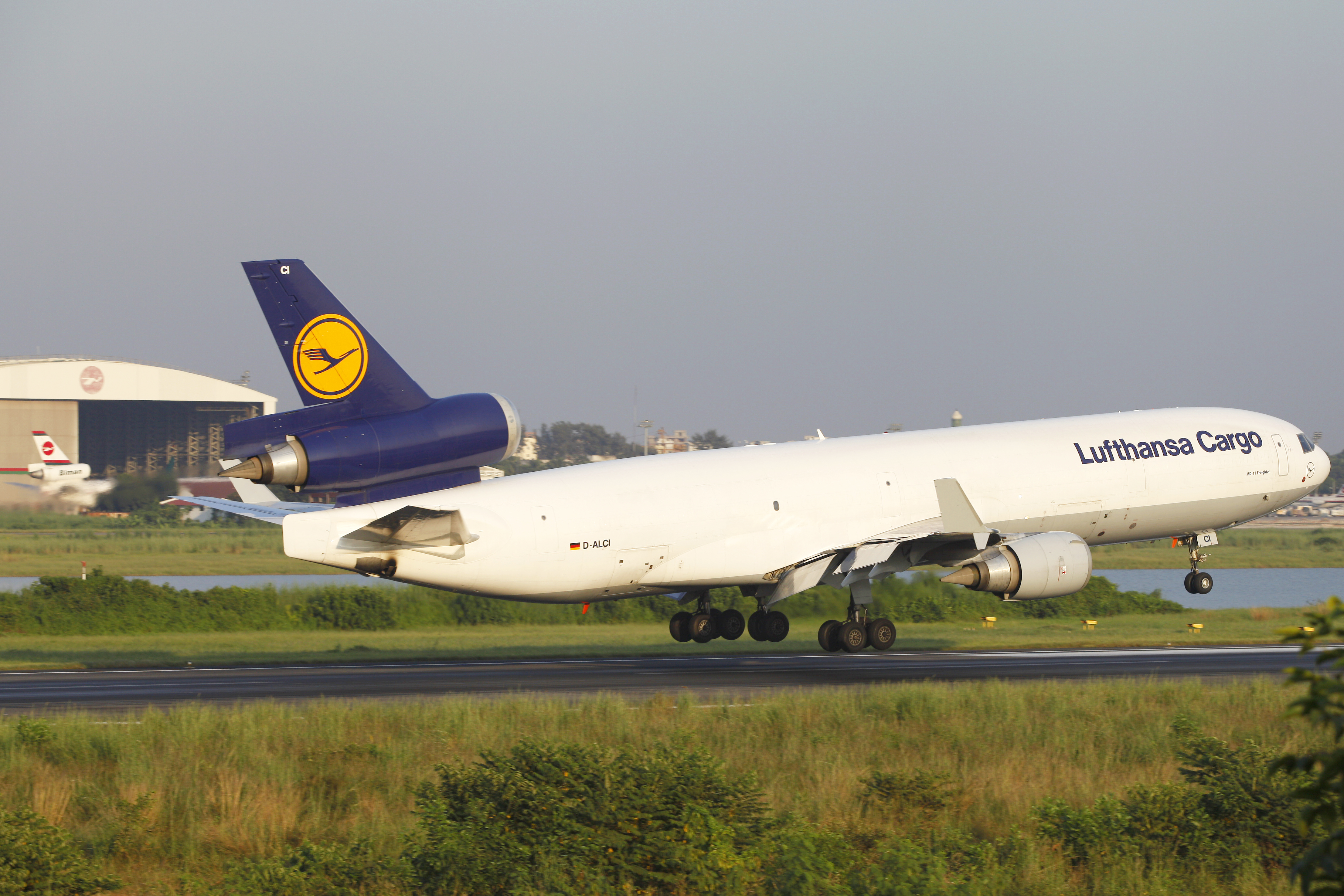 D-ALCI McDonnell Douglas MD-11(F) Lufthansa Cargo Landing at Hazrat Shahjalal International Airport Dhaka - VGHS / DAC. Other photographs in this sequence : File:D-ALCI McDonnell Douglas MD-11(F) Lufthansa Cargo Landing (8612142709).jpg File:D-ALCI McDonnell Douglas MD-11(F) Lufthansa Cargo Landing (8613249444).jpg